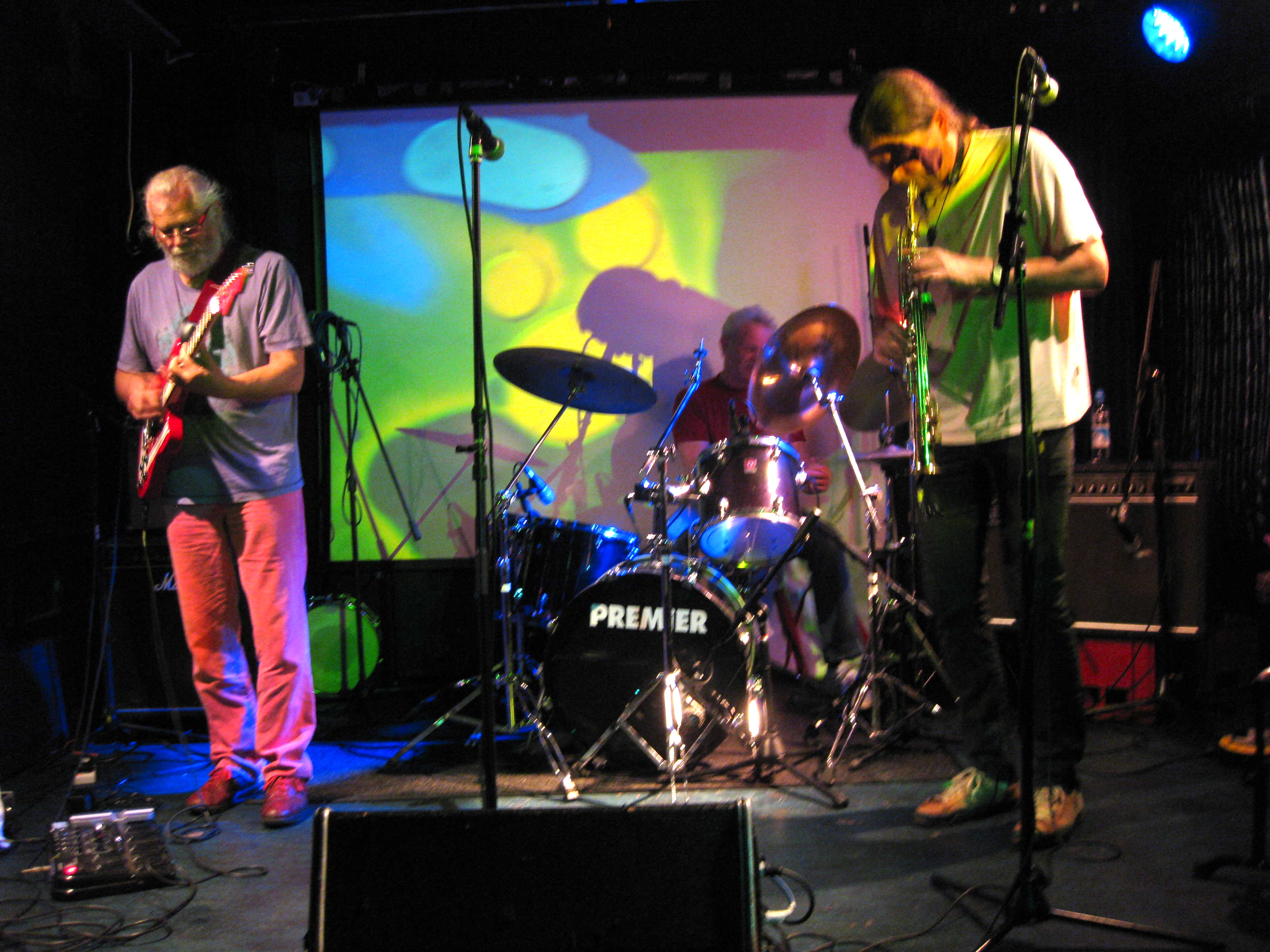 The avant-rock band, Red Square, live on stage at Klub Kakofanney, Oxford, UK in October 2011. Ian Staples (left) Roger Telford (centre) and Jon Seagroatt (right).